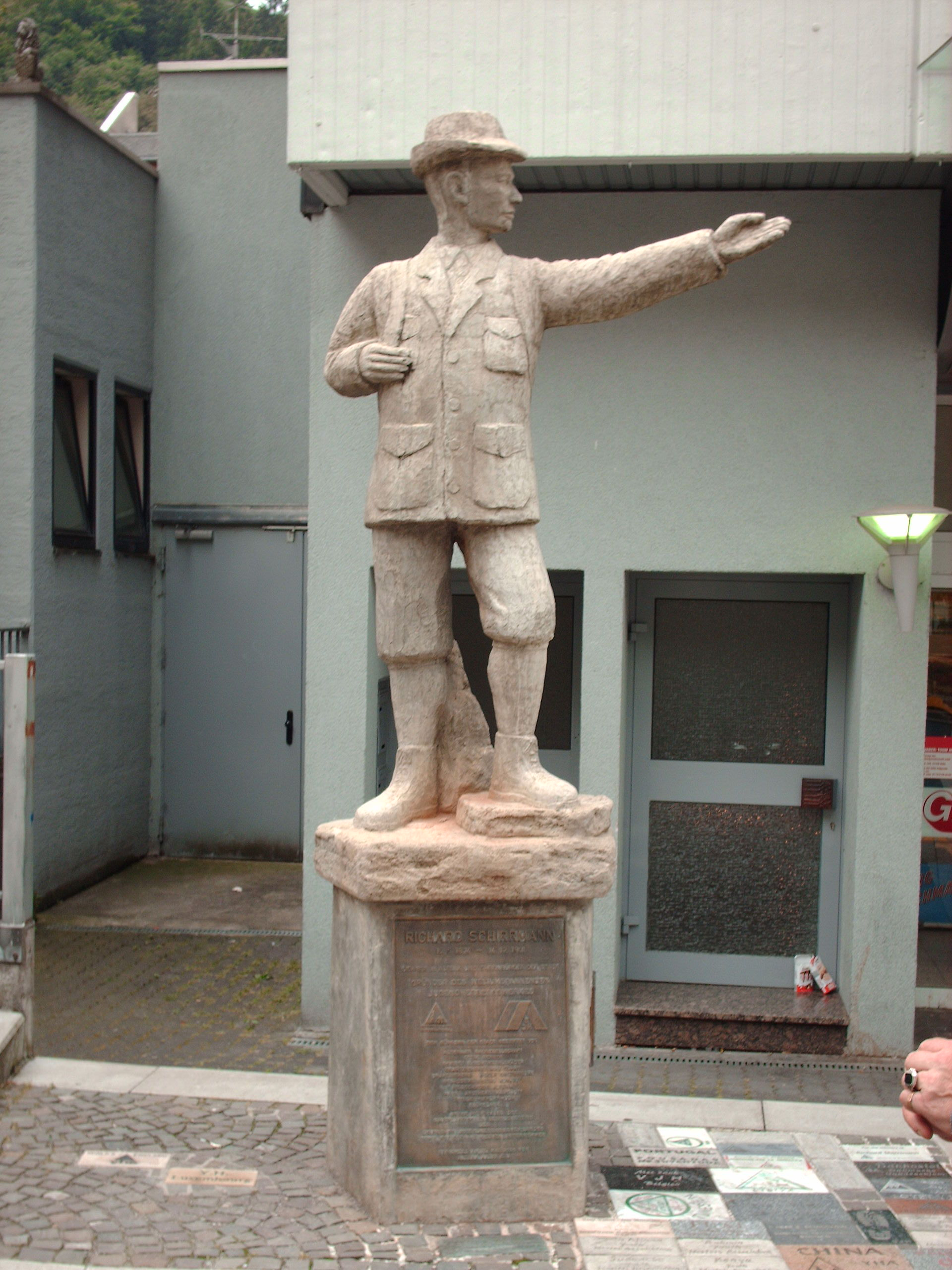 Statue of Richard Schirrmann, Altena, Germany check usage